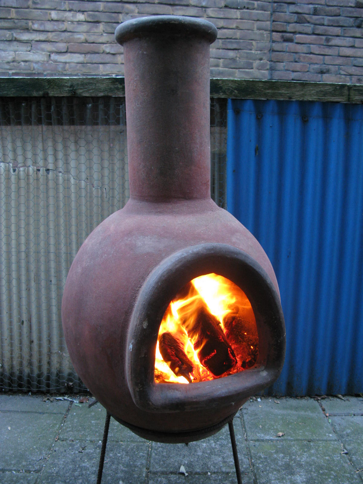 Chimenea in operation, burning dry wood.